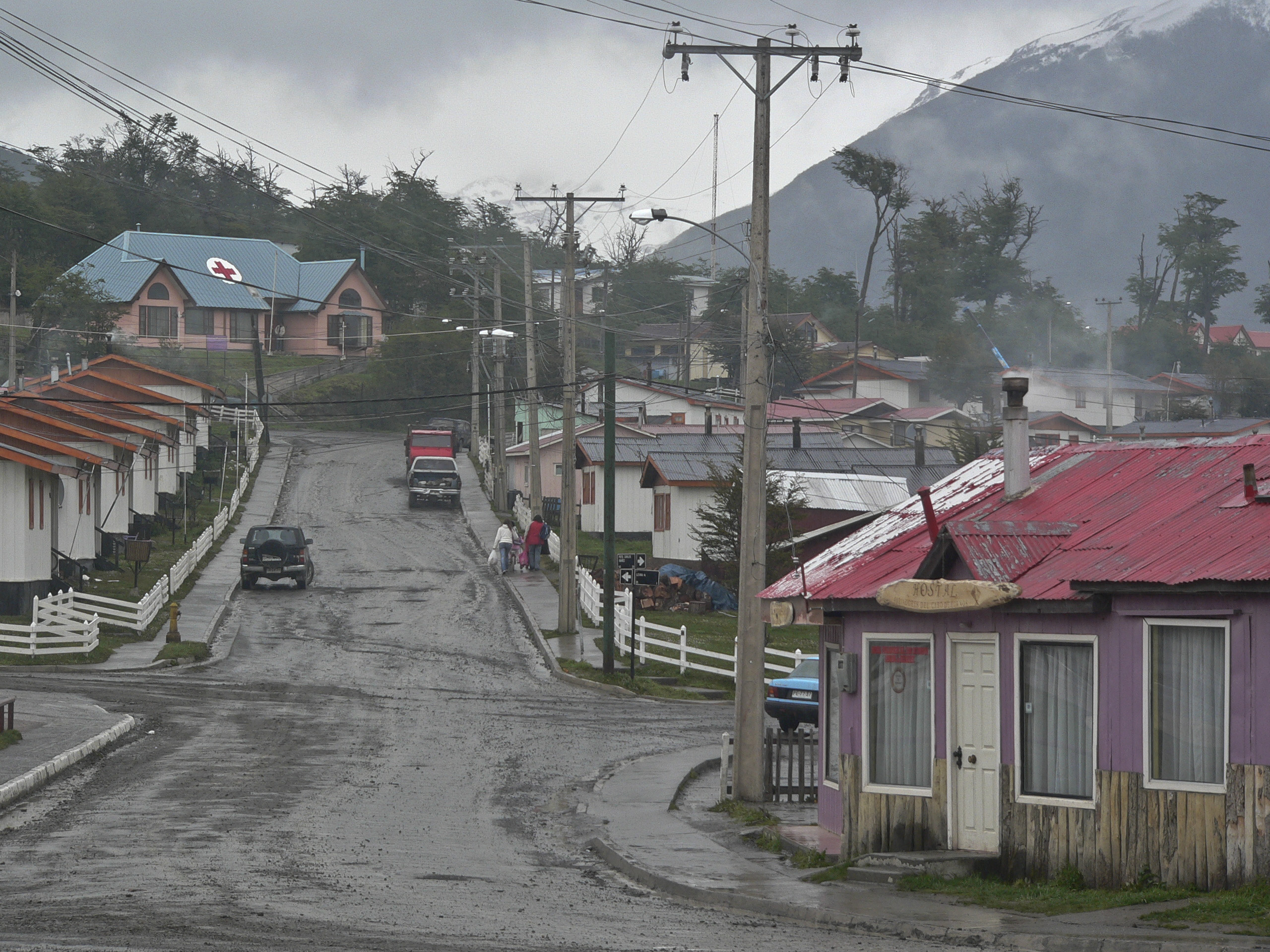 Streets and Hospital in Puerto Williams, Navarino Island, Chile